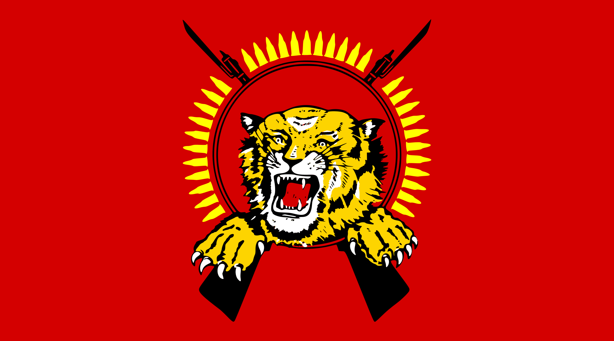 The Tamil Tiger’s flag